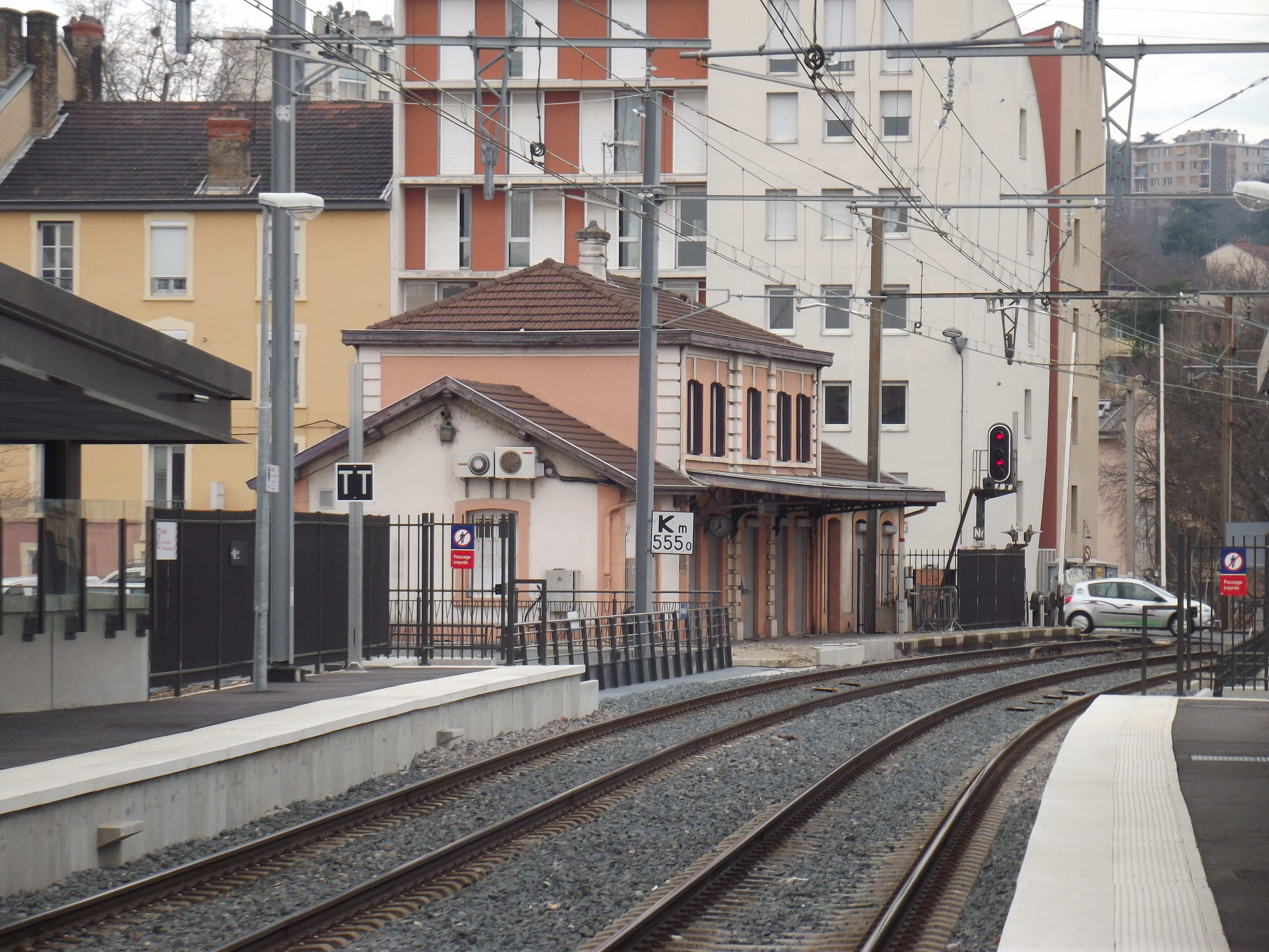 Old station building. no longer in use.